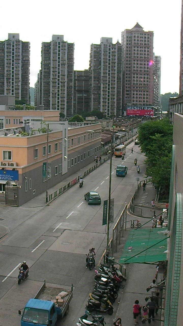 Avenida do Conselheiro Borja 中文（香港）: 青洲大馬路